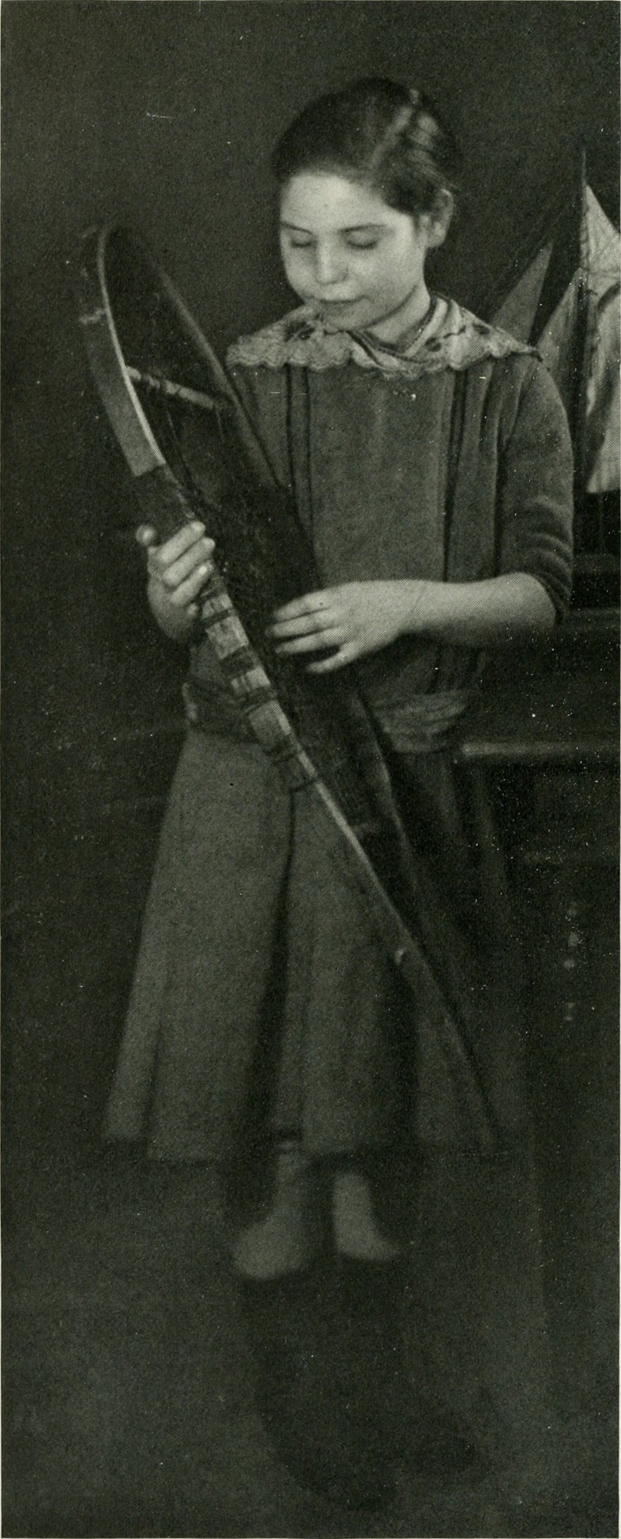 Title: The American Museum journal Year: [1918 c1900-[1918 (c190s) Authors: American Museum of Natural History Subjects: Natural history Publisher: New York : American Museum of Natural History Text Appearing Before Image: ' Text Appearing After Image: IMAGINATION AND THE SEEING HAND The suffering is deep that comes from a sense of Linworthiness for life, of limitation which unfits one to give service to those he loves, and to take his place with others as a normal, useful mem- ber of home and society. This suffering is thrust upon children of sensitive nature who are blind. They need help in such study and play as will give them a broad vision outside themselves and a courage of spirit to fight their way into helpful- ness to others and even full self-support when they are grown. Blind- ness does not mar the power to learn or to at- tain to great knowledge or wisdom; it merely re- quires a different channel through which sensations shall enter the brain. It does not hinder the asso- ciation of ideas or forma- tion of theories as in any child who can see. It does not hinder the ac- tion of the imagination. In fact the blind build up a very real and vivid world — and as we all know, the most beautiful world is that of the imag- ination. There might even be the question whether, other things being equal, one sees bet- ter with the hand or the eye. Surely it is true that the touch of the hand is very real and near, leaving nothing un- certain. This blind child can put together her reading and her various touch impressions and visualize the traveler in Arctic snows quite as well as can the child who has gained her ideas of snow and snowshoes through her eyes 574